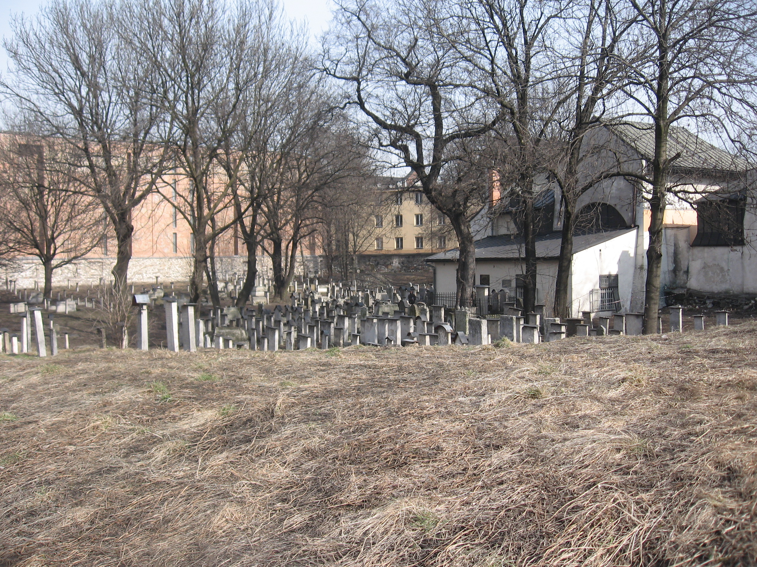 The jewish cemetery at Krakow